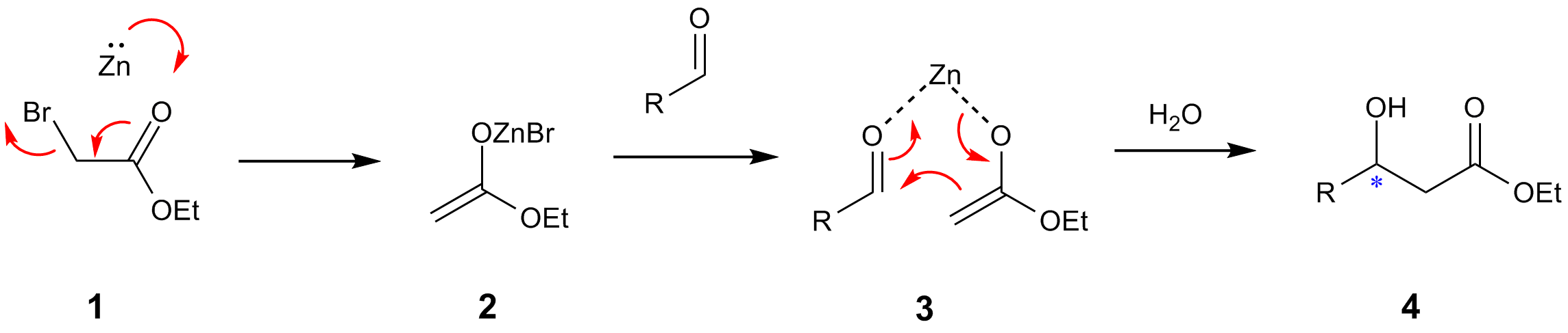 Reformatsky reaction mechanism